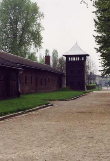 object: Konzentrationslager Auschwitz I Stammlager picture taken 2001 by André Freud